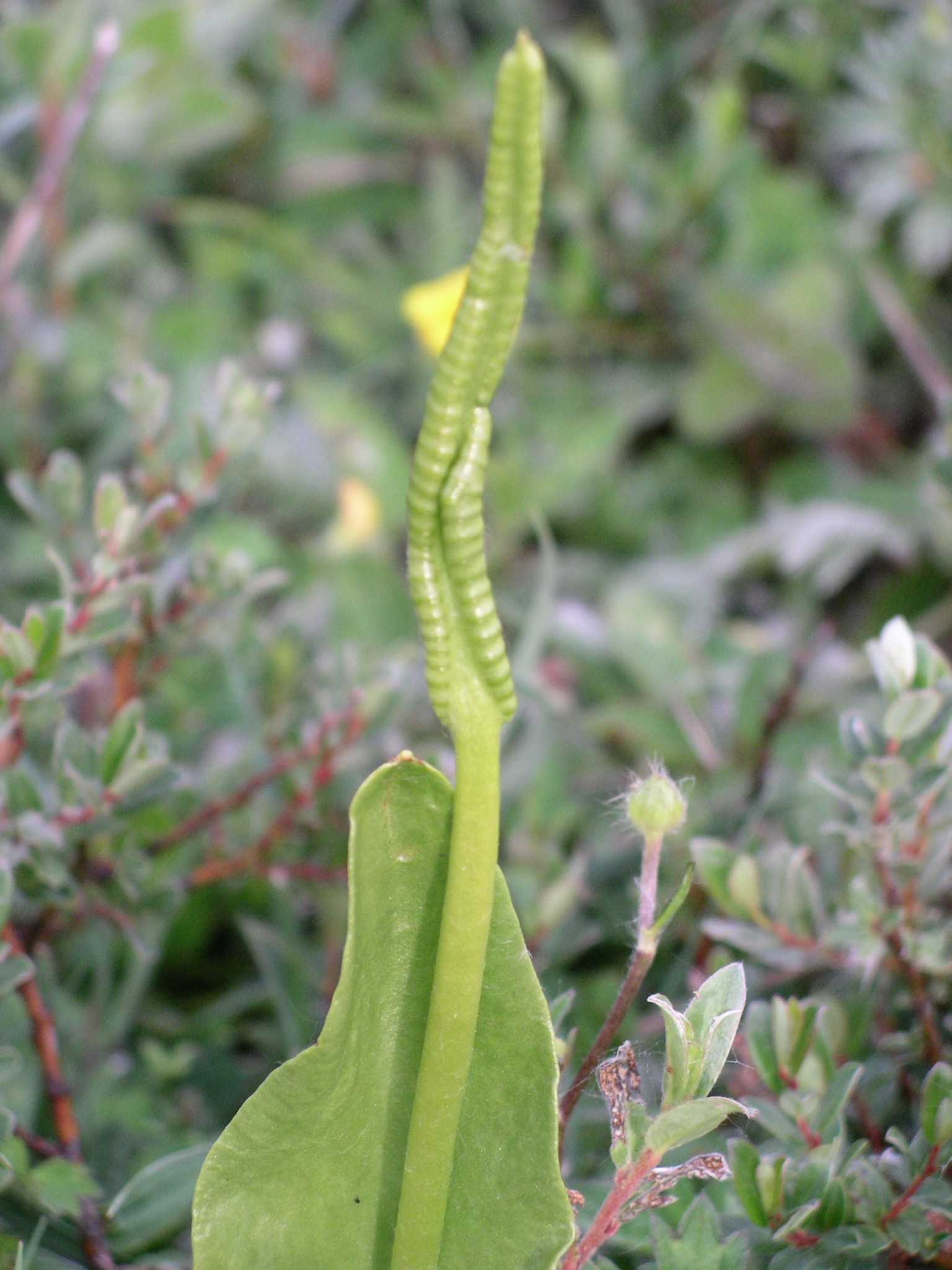 Close up of Ophioglossum vulgatum growing in sand dunes on Anglesey